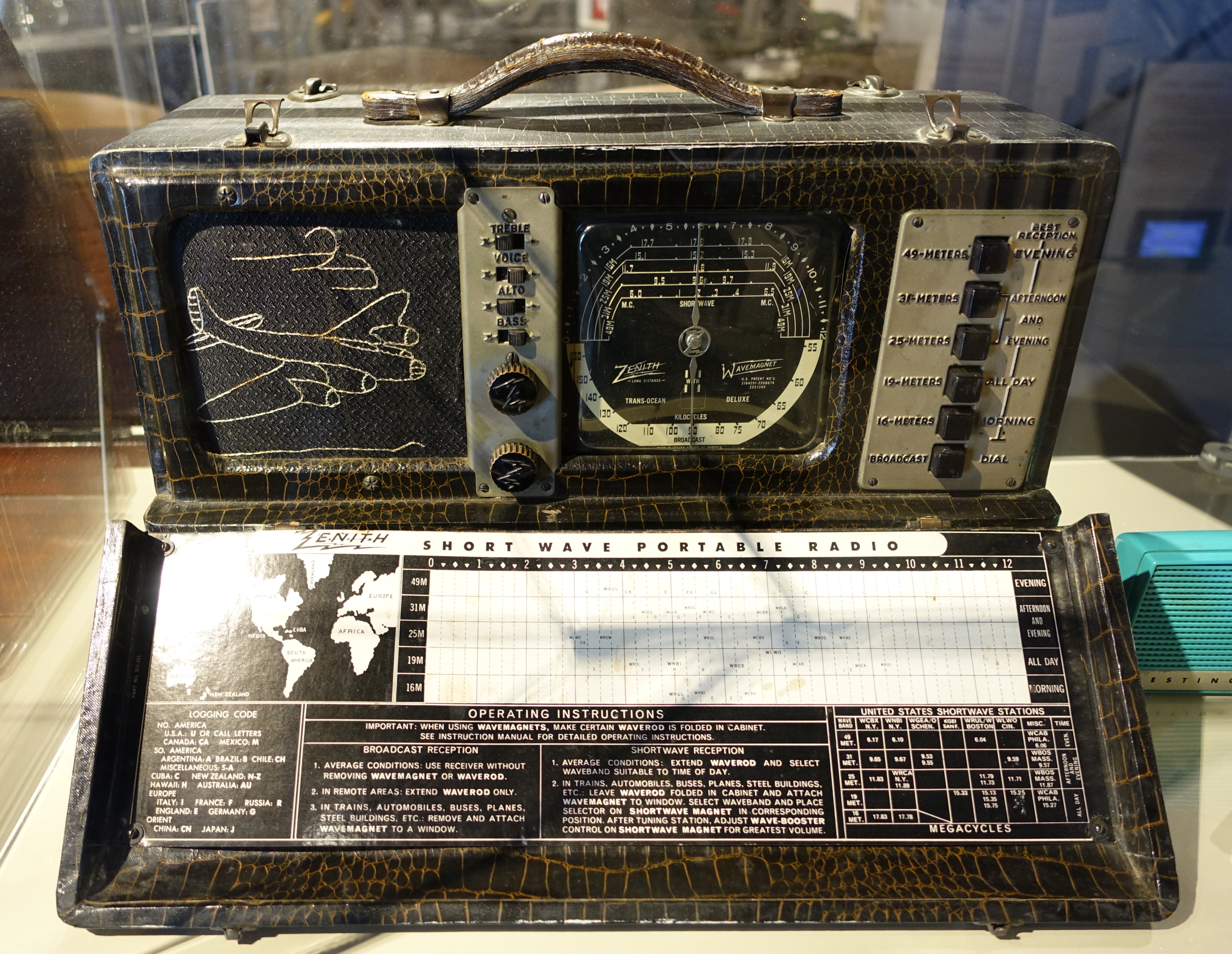 Exhibit in the National Electronics Museum, 1745 West Nursery Road, Linthicum, Maryland, USA. All items in this museum are unclassified. The museum permitted photography without restriction.